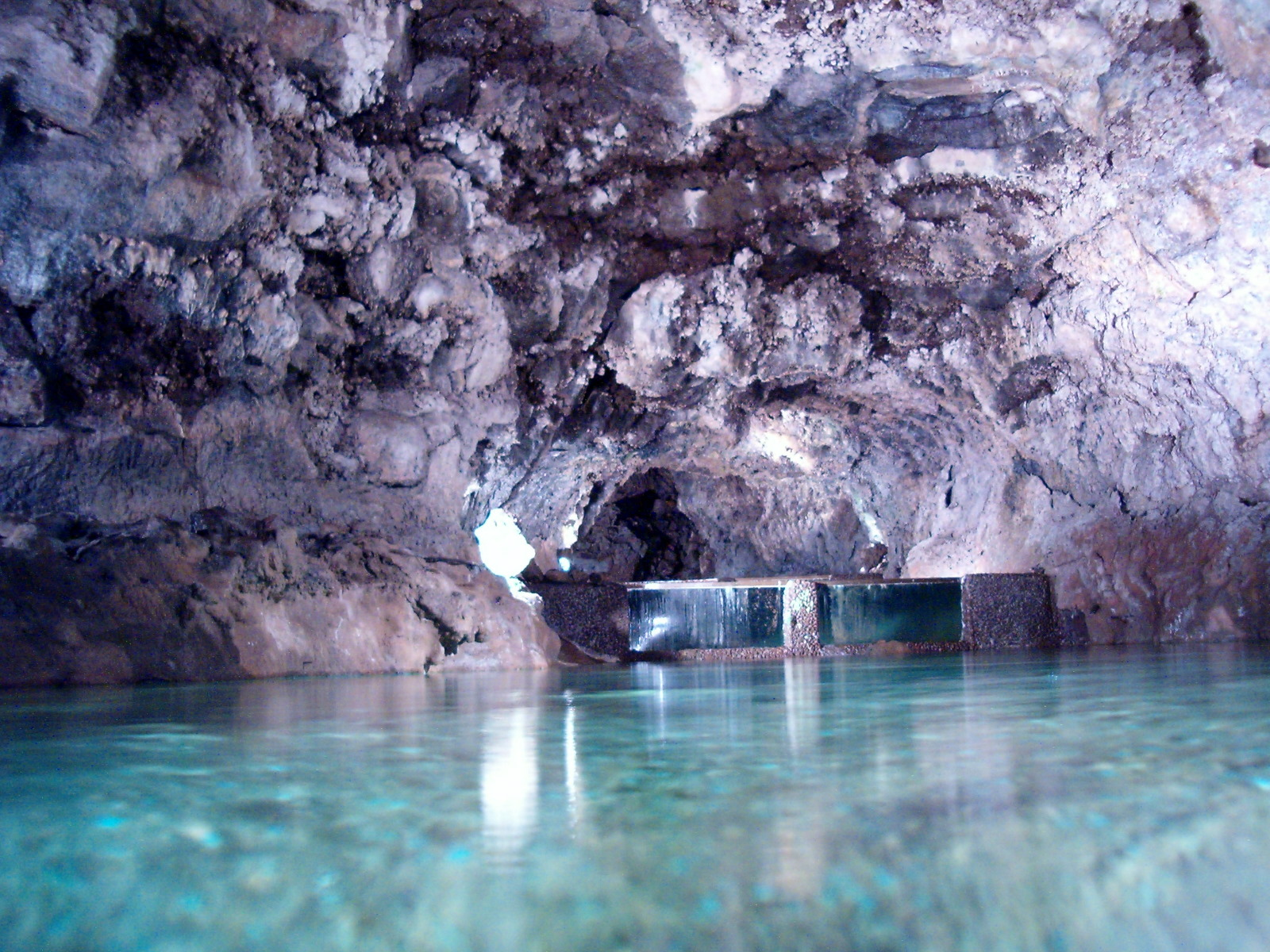 Cave of São Vicente (Madeira)